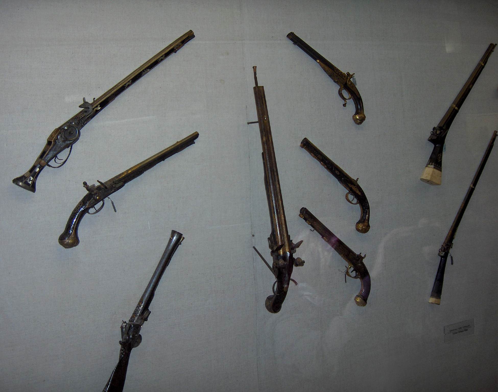 Ancient pistols, blunderbuss and wheellock pistol; Topkapı Palace, Istanbul, Turkey